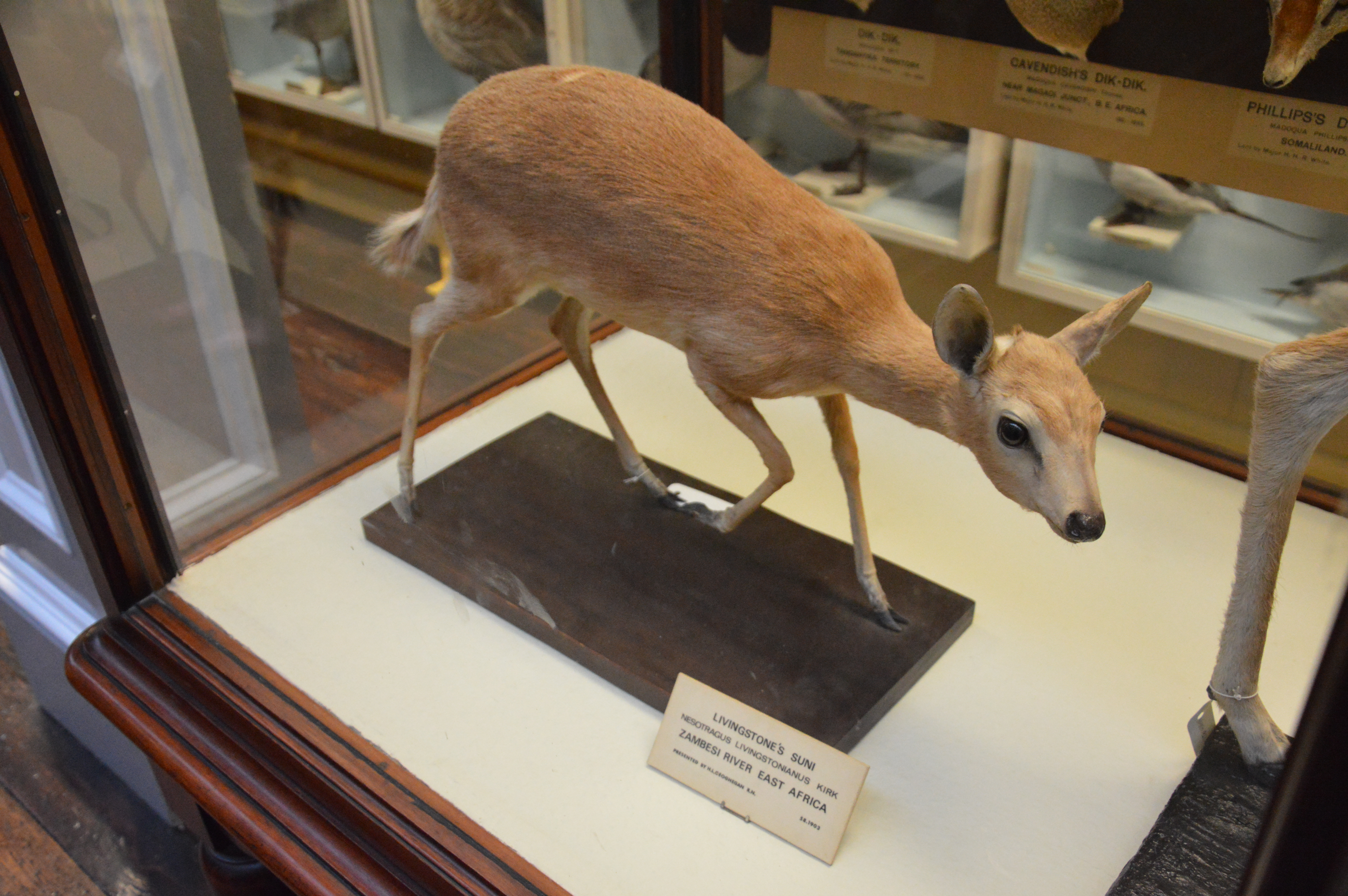 Nesotragus livingstonianus kirk (now known as Neotragus moschatus or N. m. livingstonianus) at the Natural History Museum (National Museum of Ireland) in Dublin.